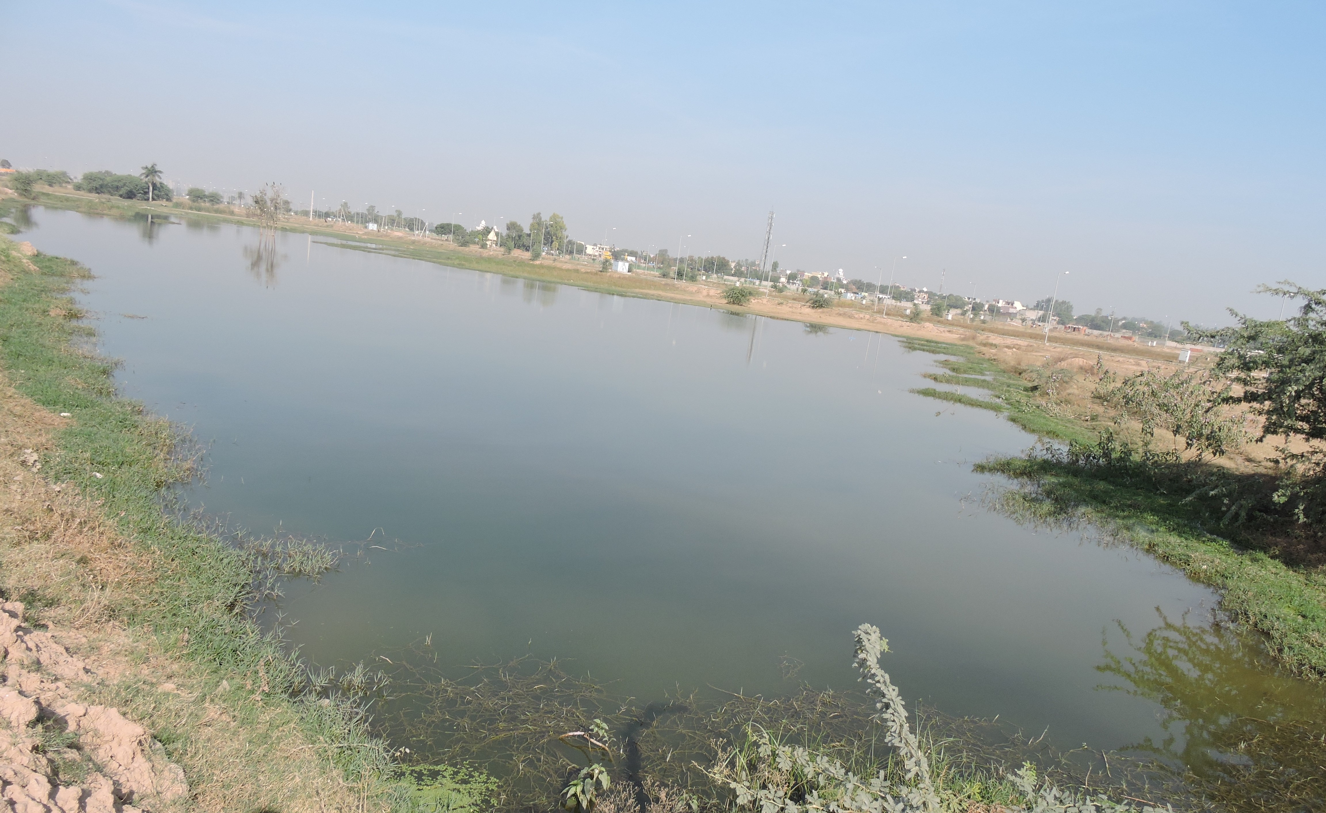 Migratory birds at village pond Bakarpur, Mohali, Punjab, India